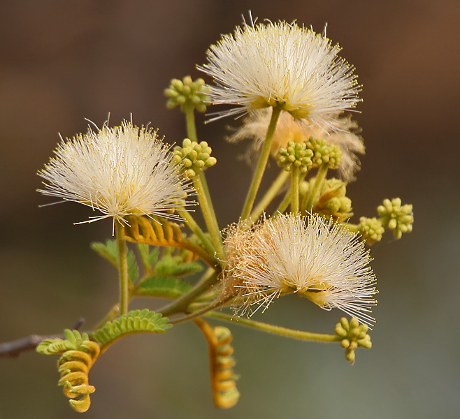 Krishna Siris Albizia amara at Deer Park in Shamirpet, Rangareddy district, Andhra Pradesh, India.